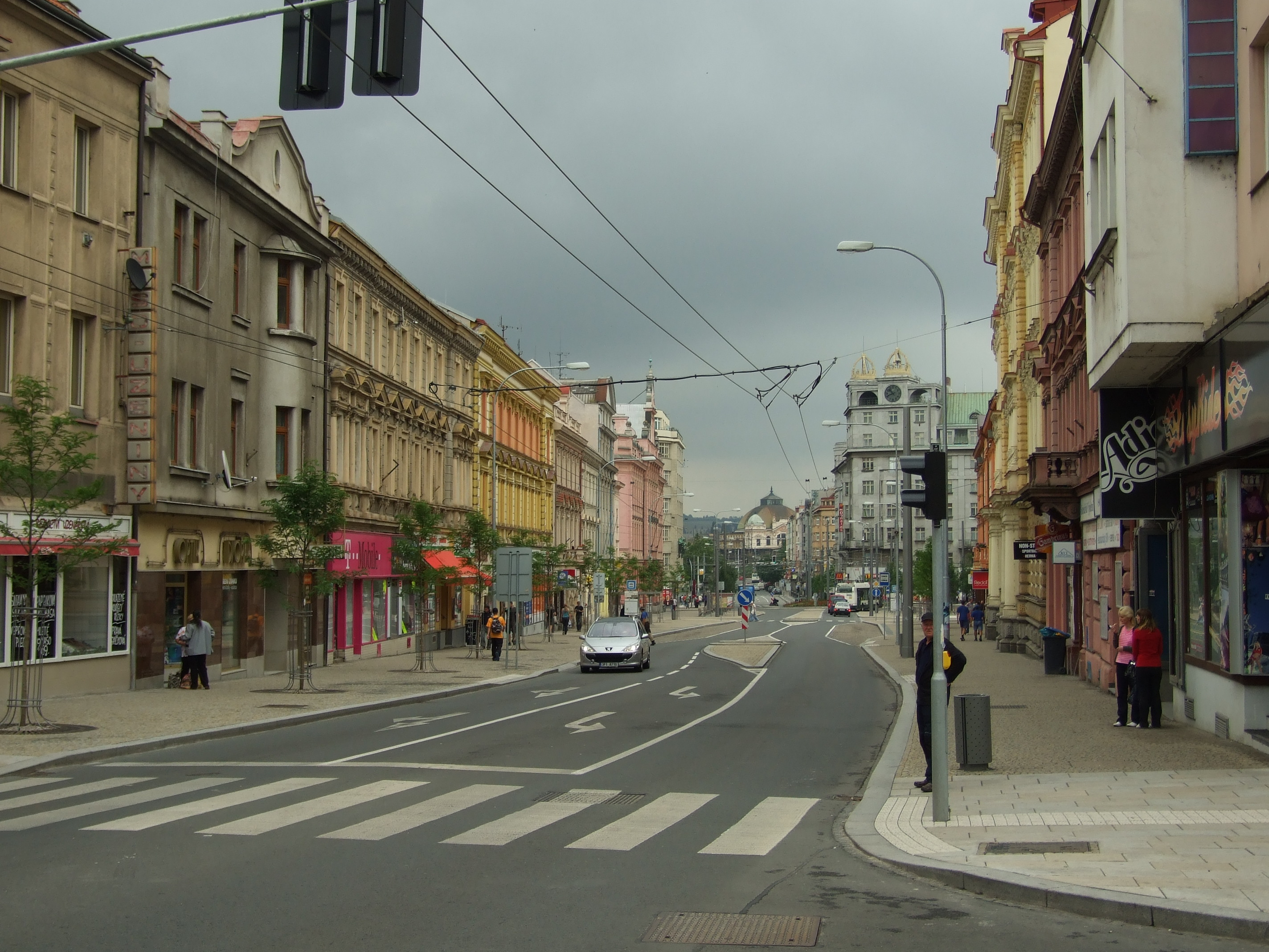 Americká street in Plzeň, Plzeň Region, CZhelp